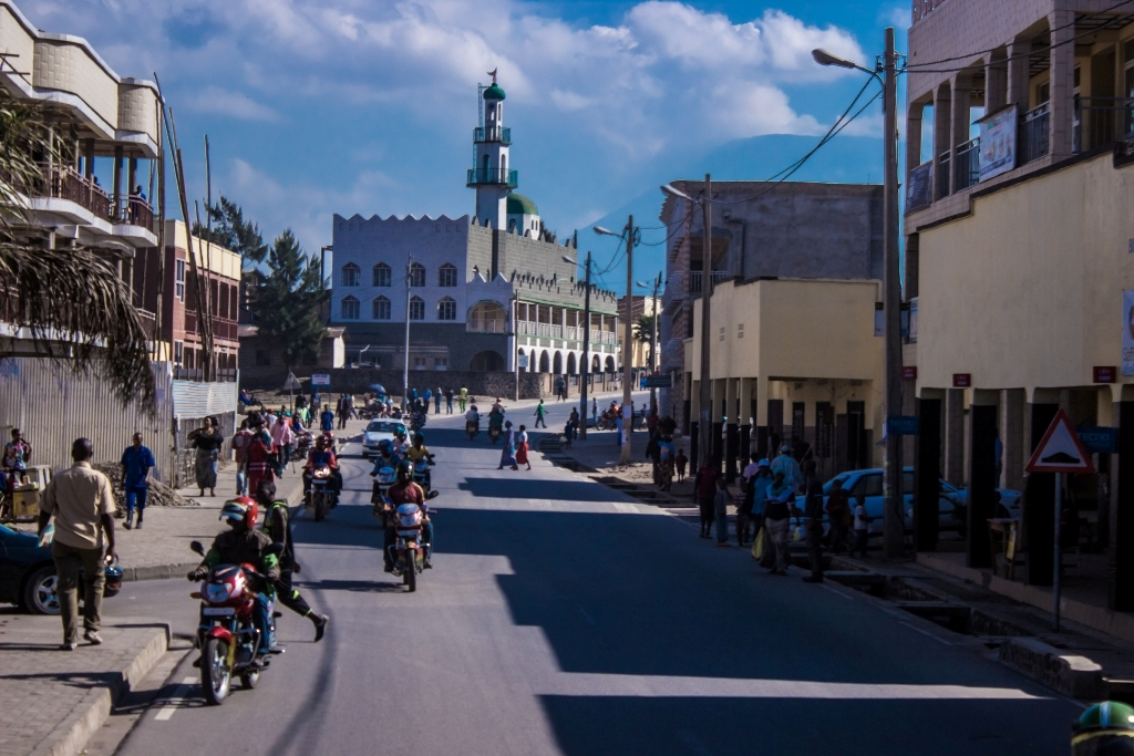 Rwanda reality of light and life